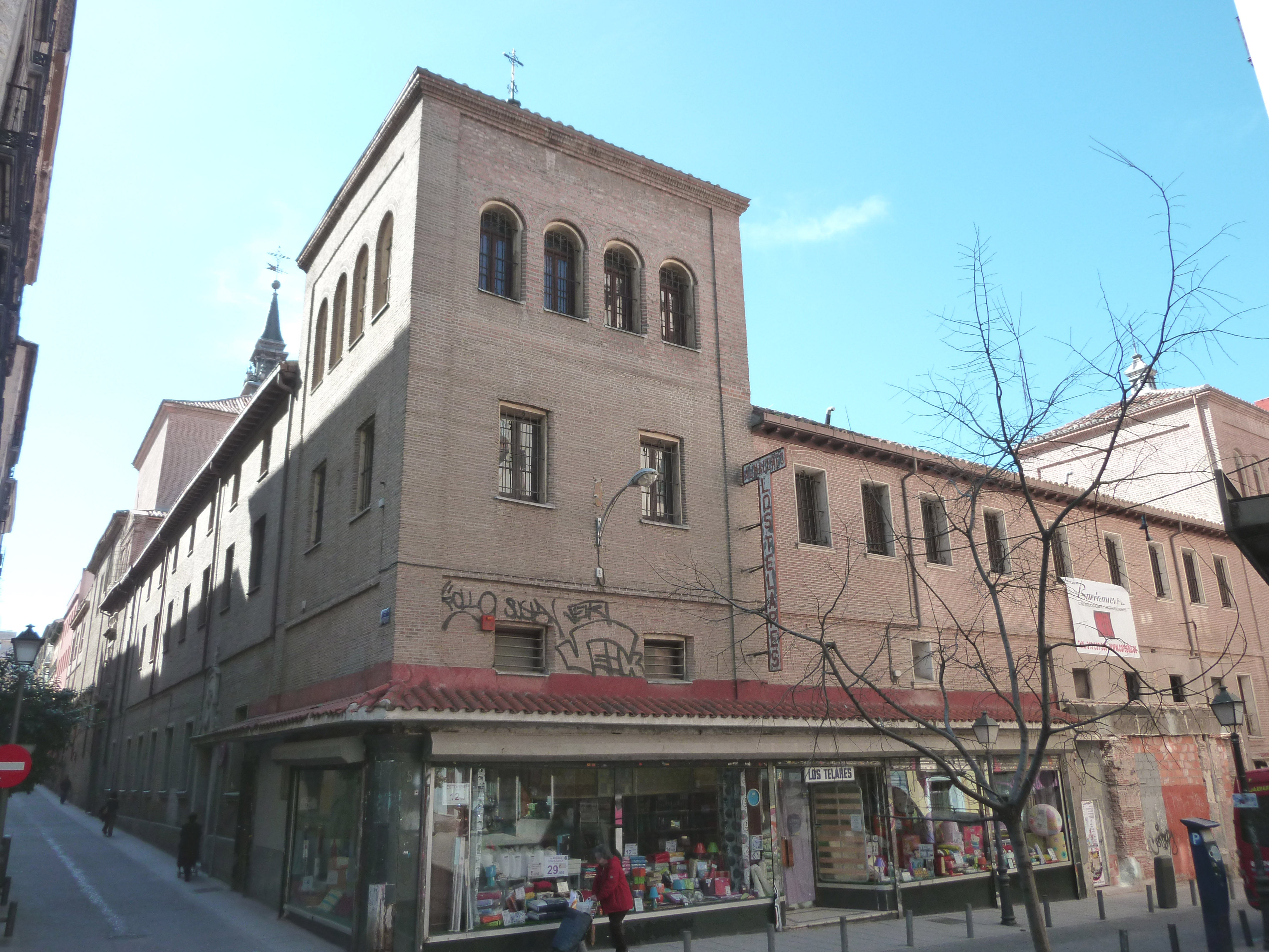 View, from the north-east angle, of Saint Placidus Convent in Madrid (Spain), at 9 Calle de San Roque (street) in Centro district. Projected in 1641 by Fray Lorenzo de San Nicolás and built between 1641 and 1661.